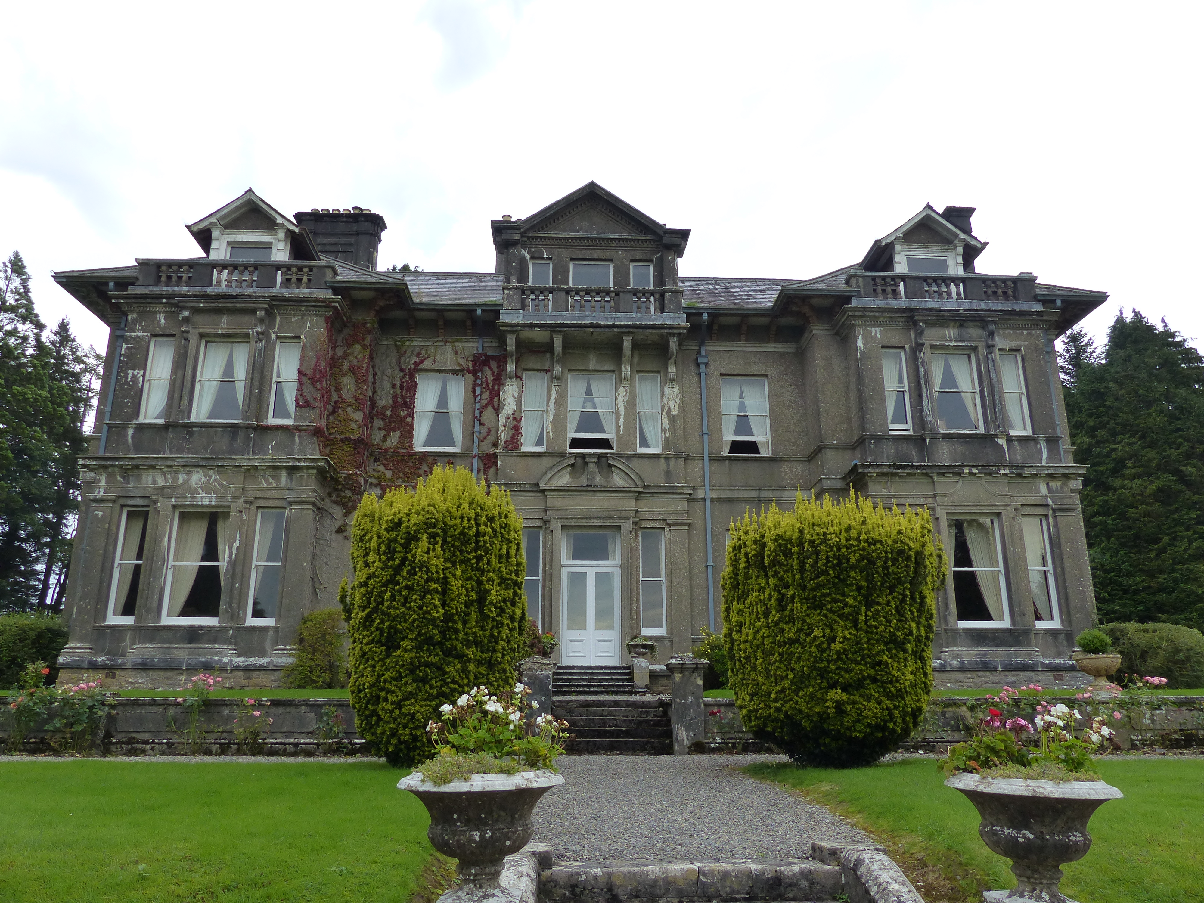 Castlerea, Clonalis House. Wikidata has entry Q281216 with data related to this item.